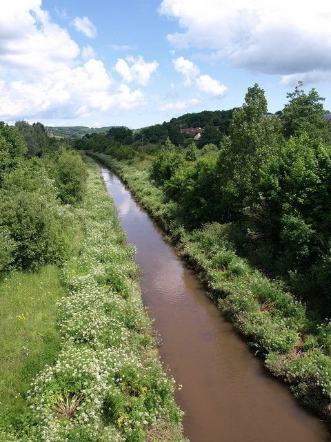 Aller Brook 833585 was taken looking upstream; this looks downstream towards the River Teign, from the same footbridge.